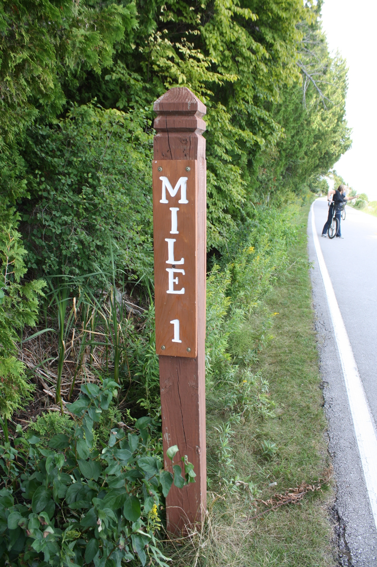 The Mile Marker 1 sign on M-185 (Michigan highway).